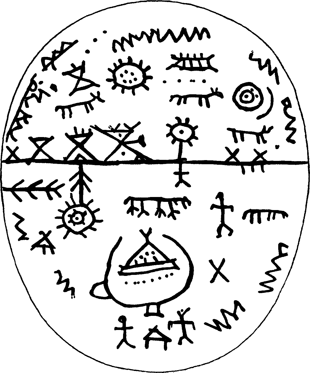 Sami drum, probably from Lule Lappmark, Sweden. Bowl drum. 24 x 20 cm. No 61 in Ernst Manker's Die lappische Zaubertrommel (1938/1950). In University Museum of Archaeology and Anthropology, Cambridge since 1887. Probably to the museum as a result of the collecting journeys of John Fiott Lee (1783-1866) during 1807-10, as mentioned in Edward Daniel Clarkes travel description from 1819.